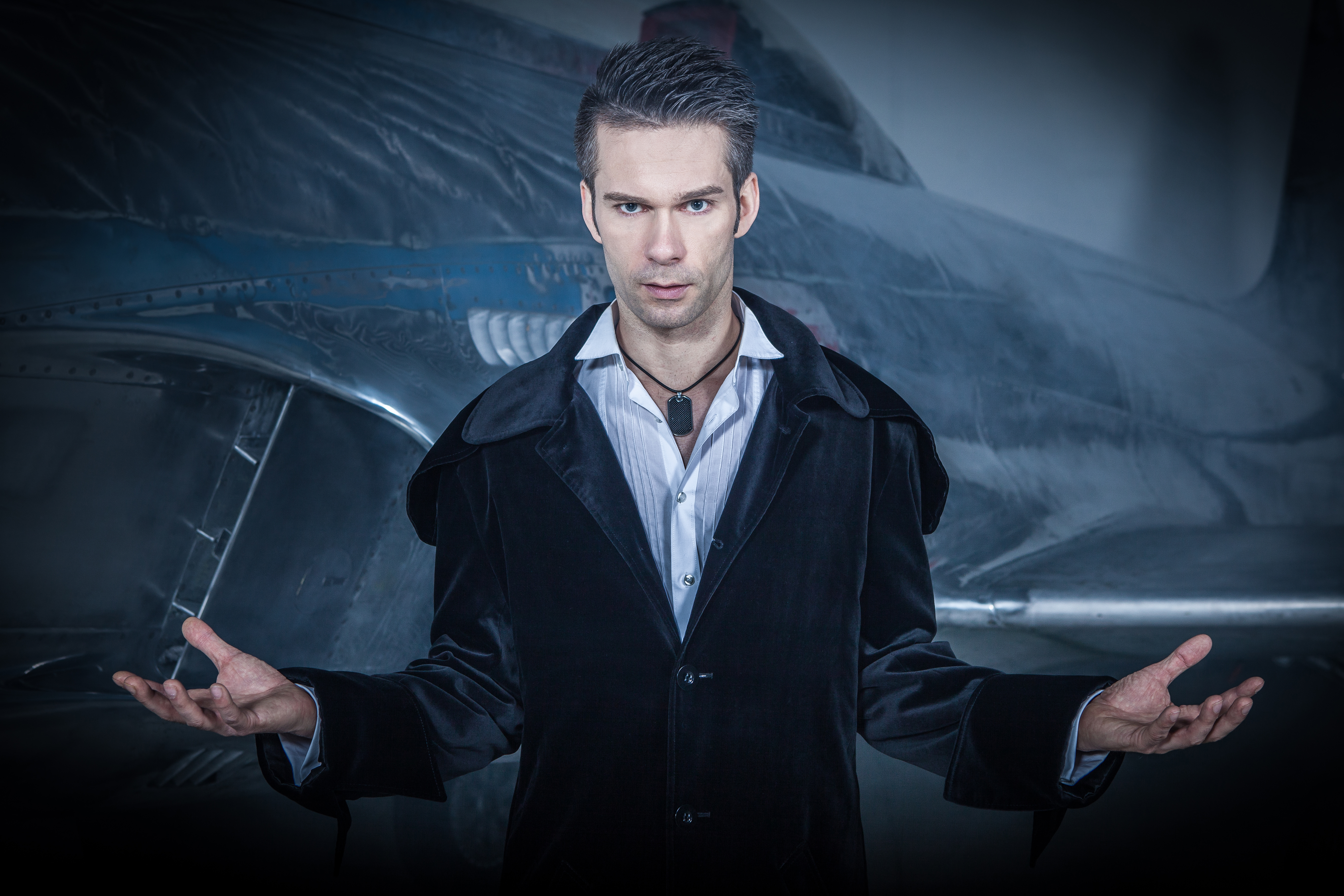 Magician and illusionist THE MAGIC MAN from Freiburg photographed by Tom Lichtenwalter in April 2016.